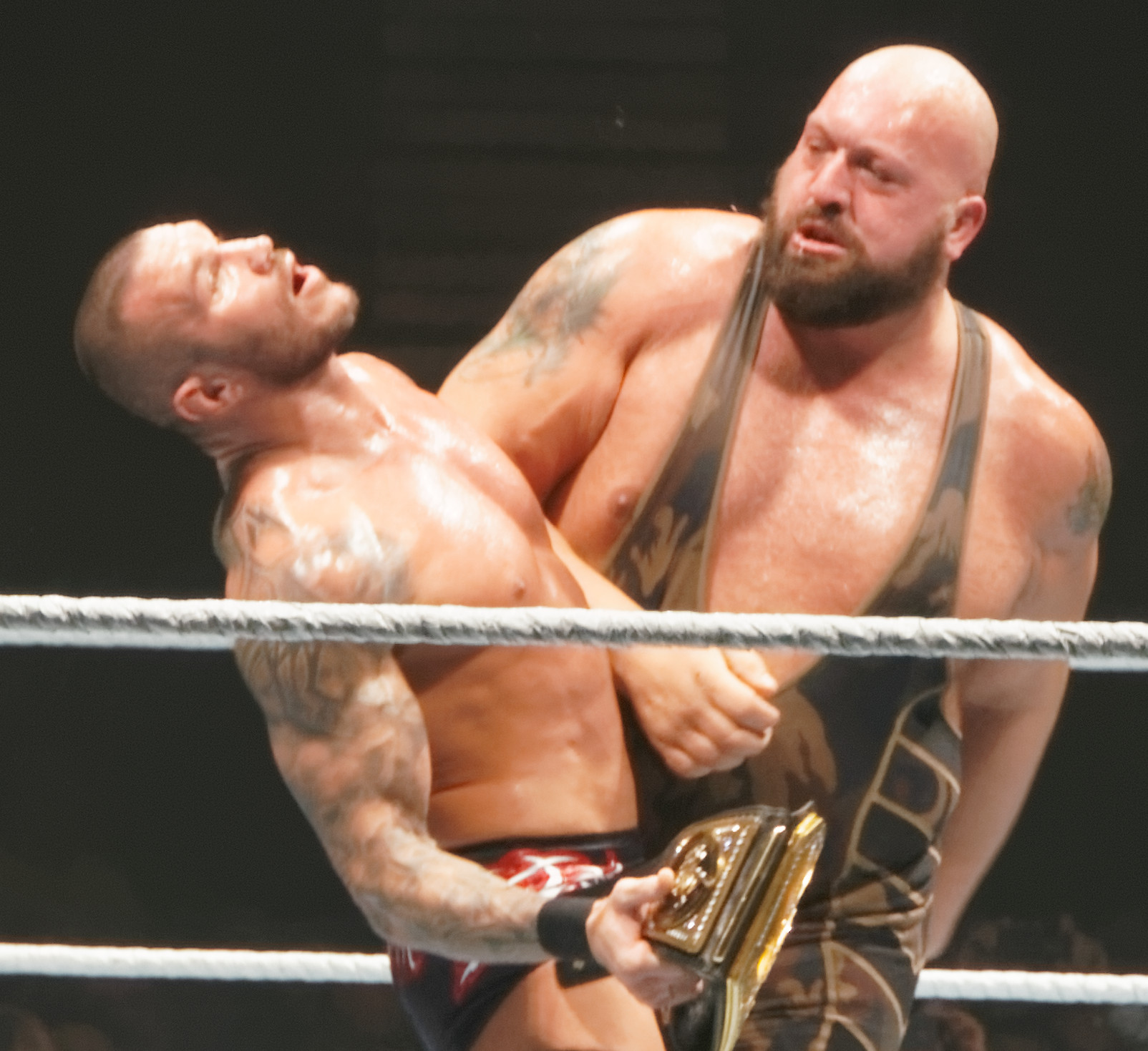 finisher